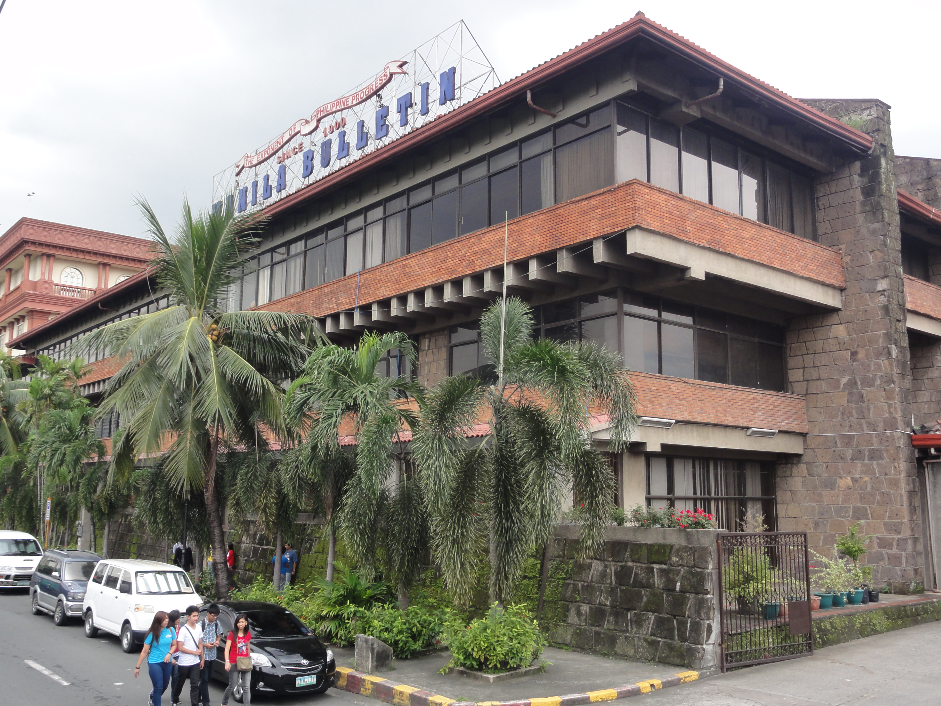 Manila Bulletin Headquarters in Intramuros, Manila